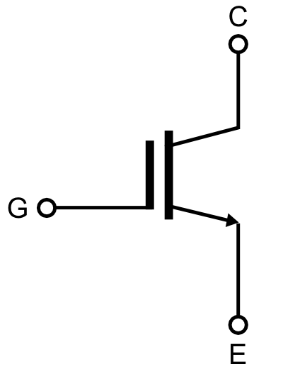 circuit symbol of IGBT (C:Collector G:Gate E:Emitter)